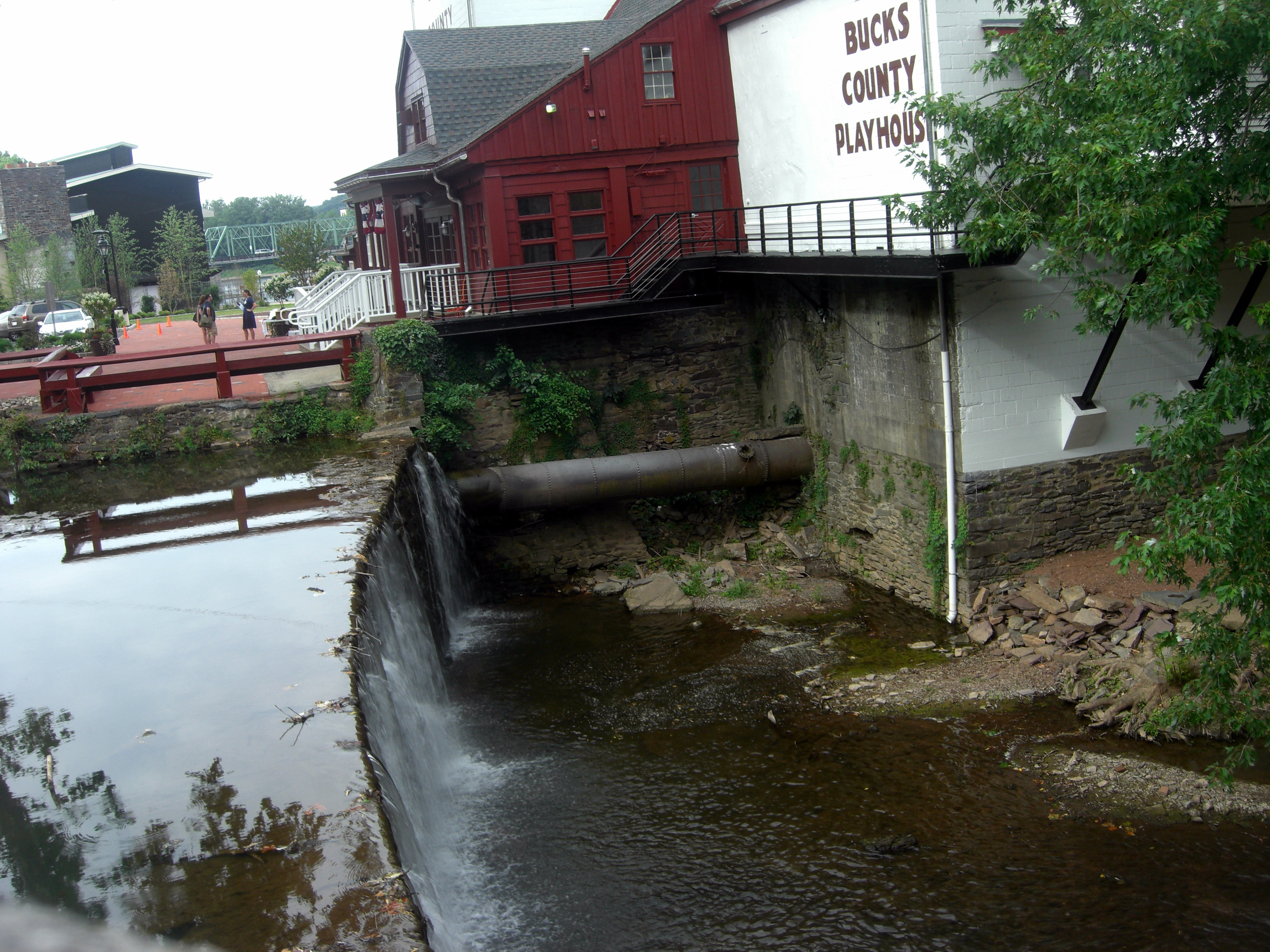 The Bucks County Playhouse in New Hope PA